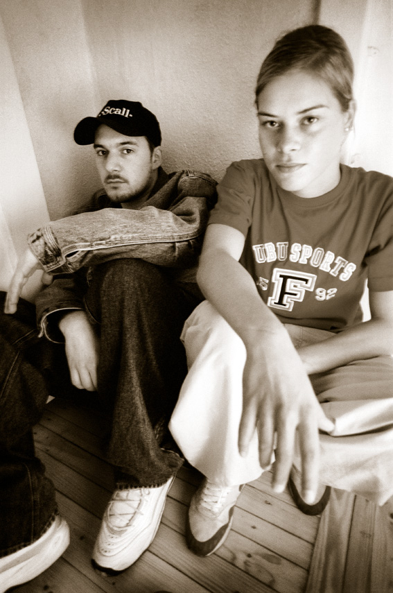 Berlin 2001